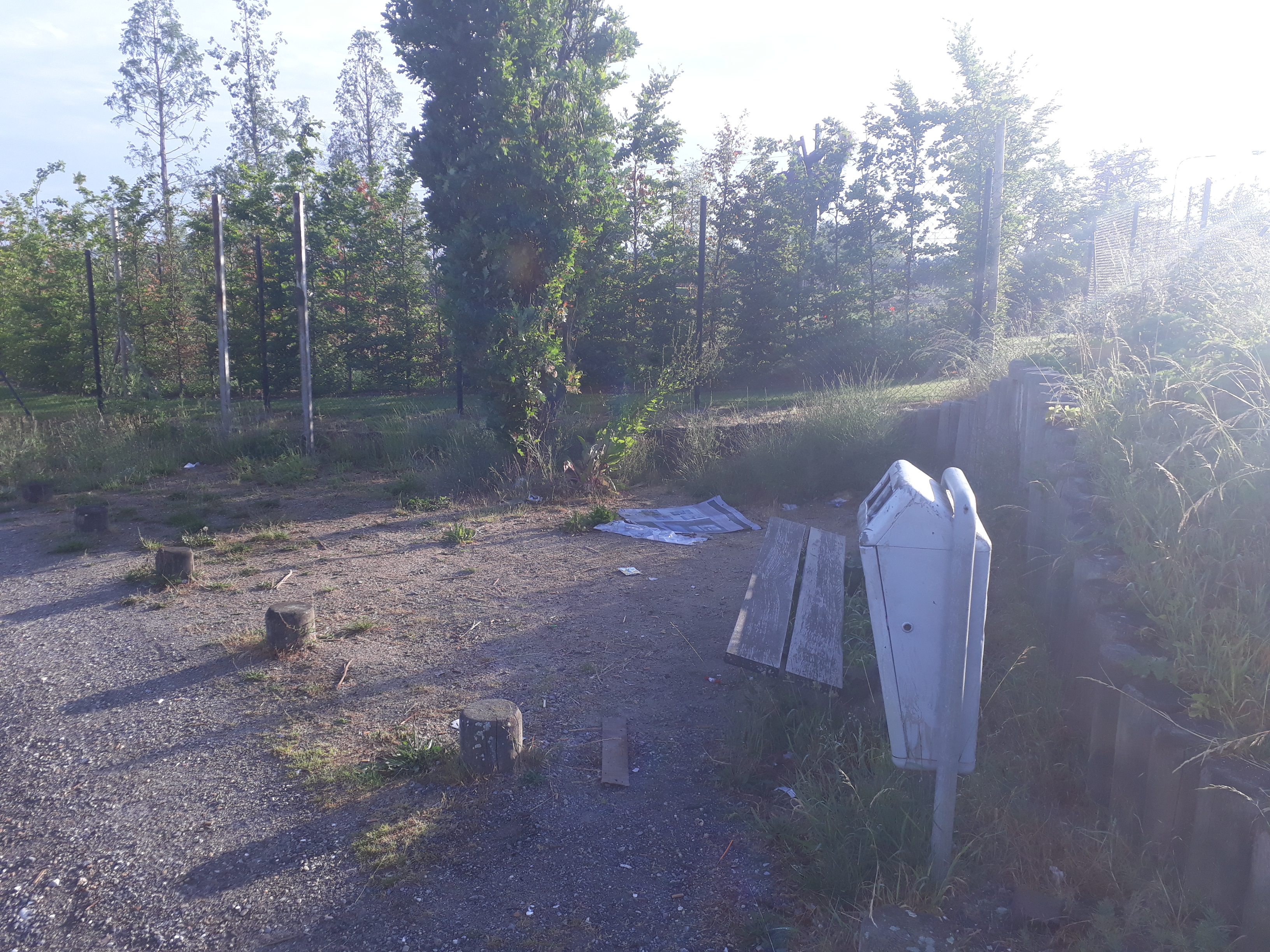 Chemin numéro 13 à Rocourt clôturé avec l'Arbre Sainte Barbe